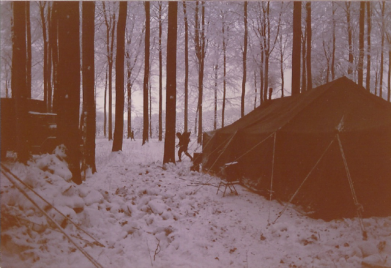 U.S. Army Europe forces in the field for operation WARSTEED 87.)